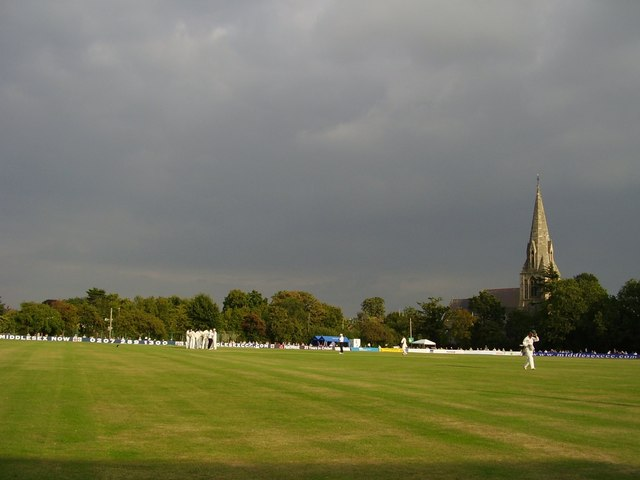 Walker Cricket Ground, Southgate, Middlesex Christchurch is in the background. The match is Middlesex vs Leicestershire, fourth day. Middlesex won by 38 runs.